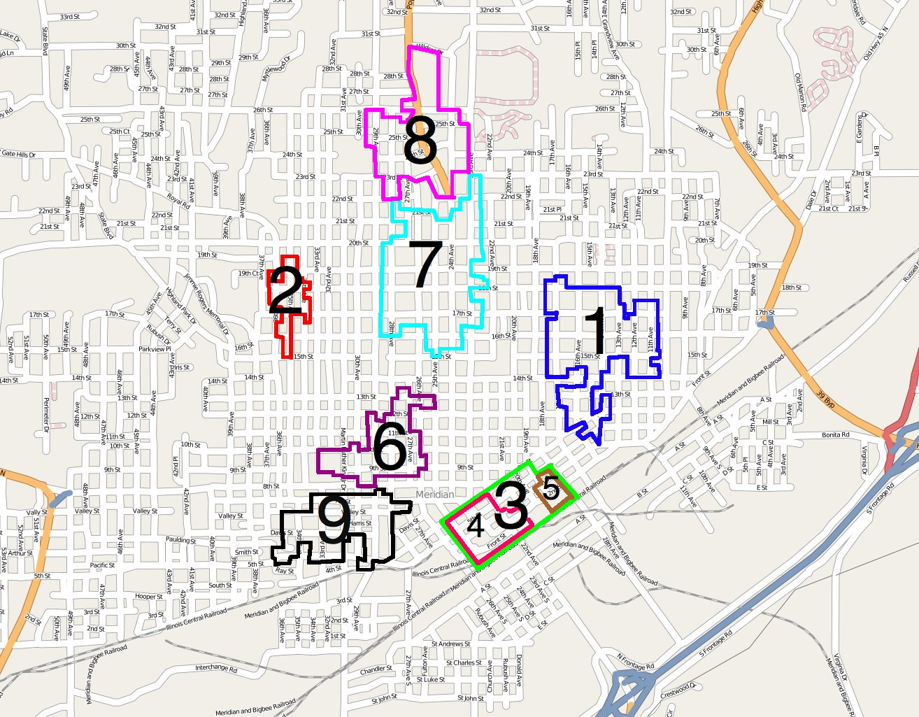 Map of the historic districts of Meridian, Mississippi, United States, that are listed on the National Register of Historic Places. OpenStreetMap cut-out (or derivative work based on it): without further description This cut-out may be incomplete, and may contain errors, or may be obsolete. Don't rely solely on it for navigation. See the image in the present state and its original context on the Mississippi OpenStreetMap wiki page for Meridian, Mississippi